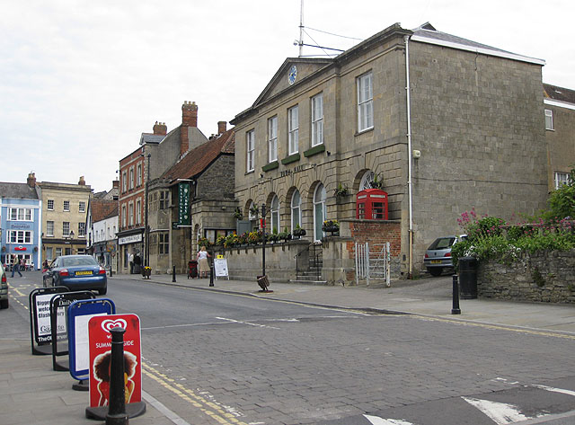 Town Hall, Glastonbury